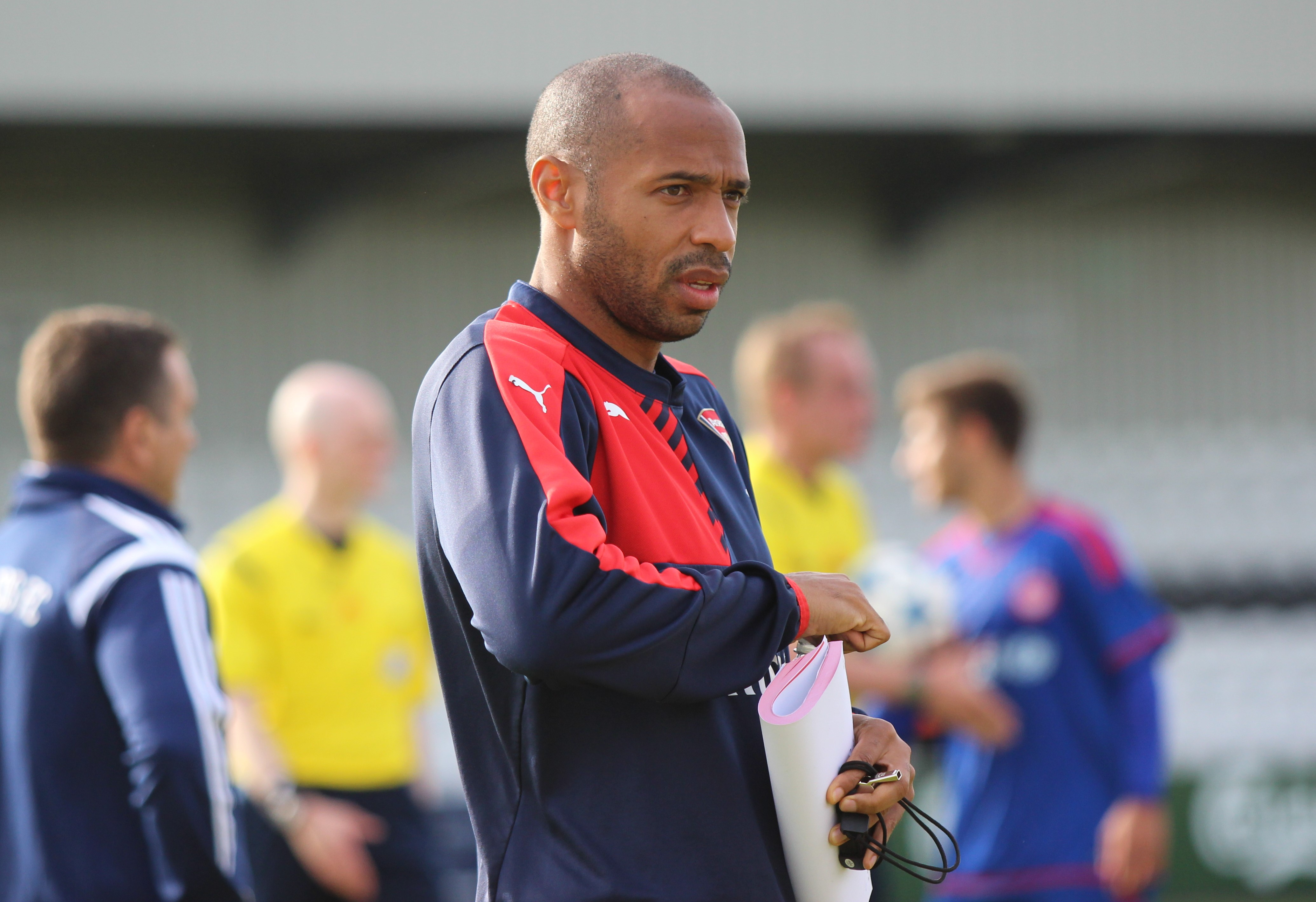 Arsenal youth team coach Thierry Henry after the game against Olympiacos.